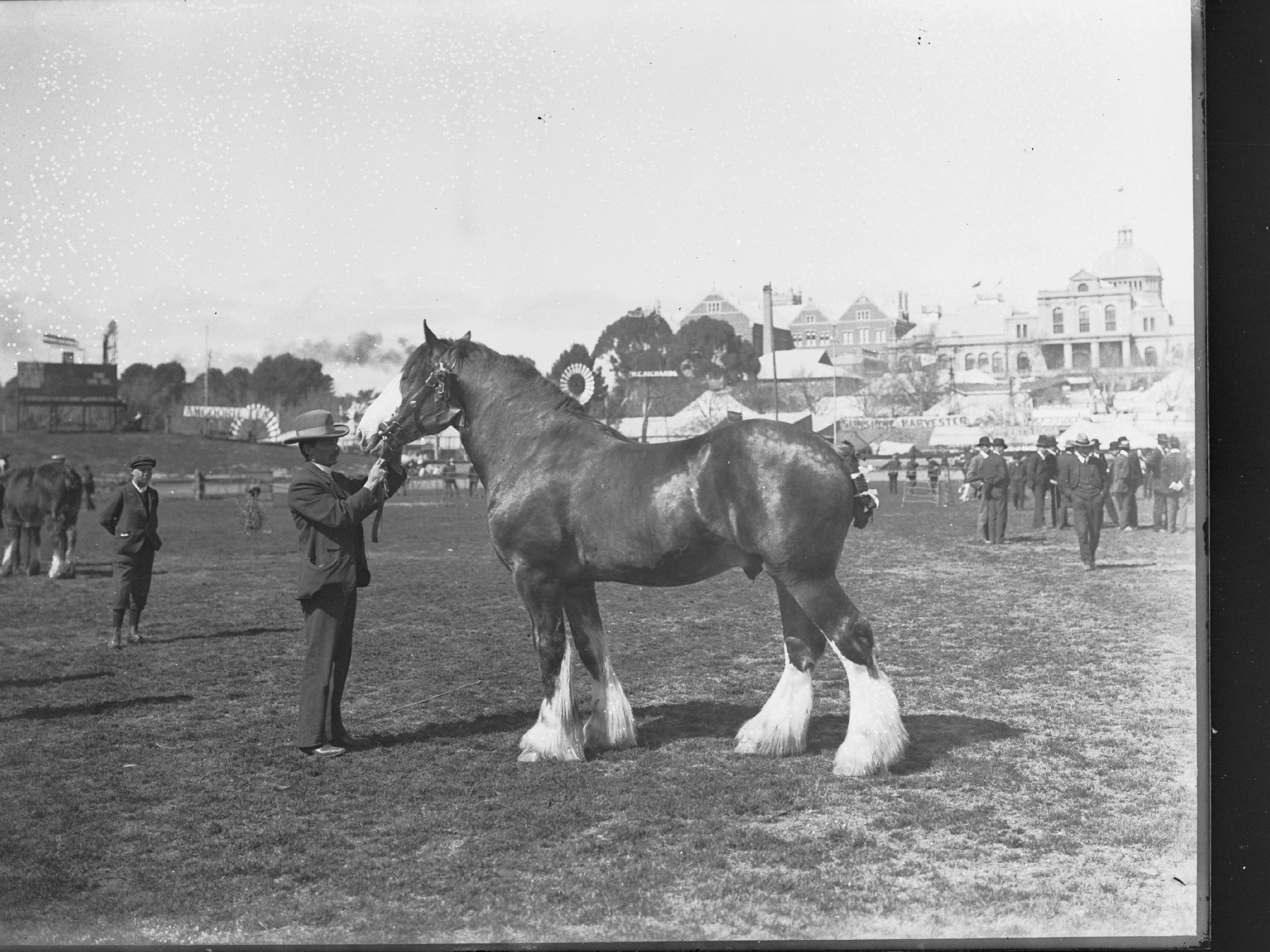 Draught horse, Agricultural Show on old showgrounds, Frome Road, Adelaide, c. 1905. The Agricultural Show located at Frome Road from 1890s until moving to Wayville in 1925. This image shows a man in a suit and hat holding the reigns of a draught horse who stands, taller than him, in front. They are on a large grassed area, possibly an oval, with crowds of people in the background, and further behind them a group of buildings can be seen.